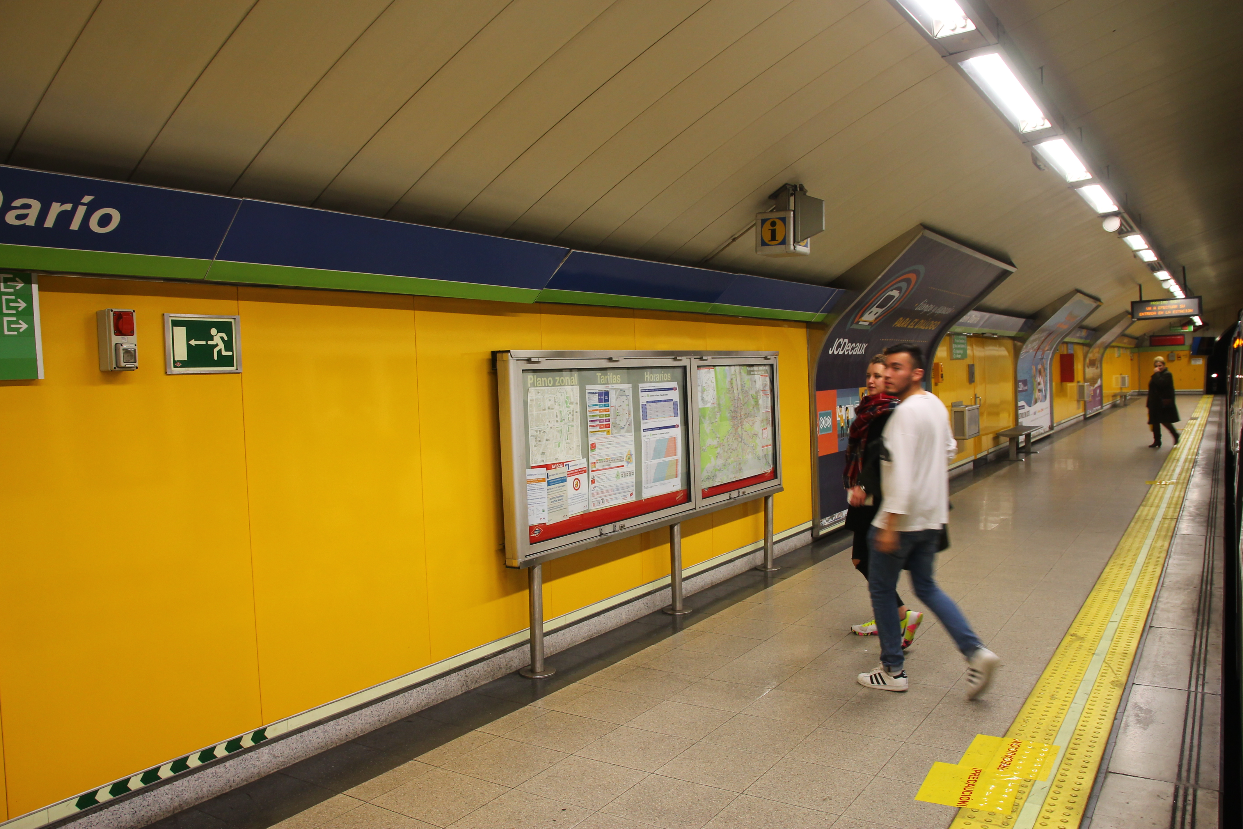 Estación de Rubén Darío